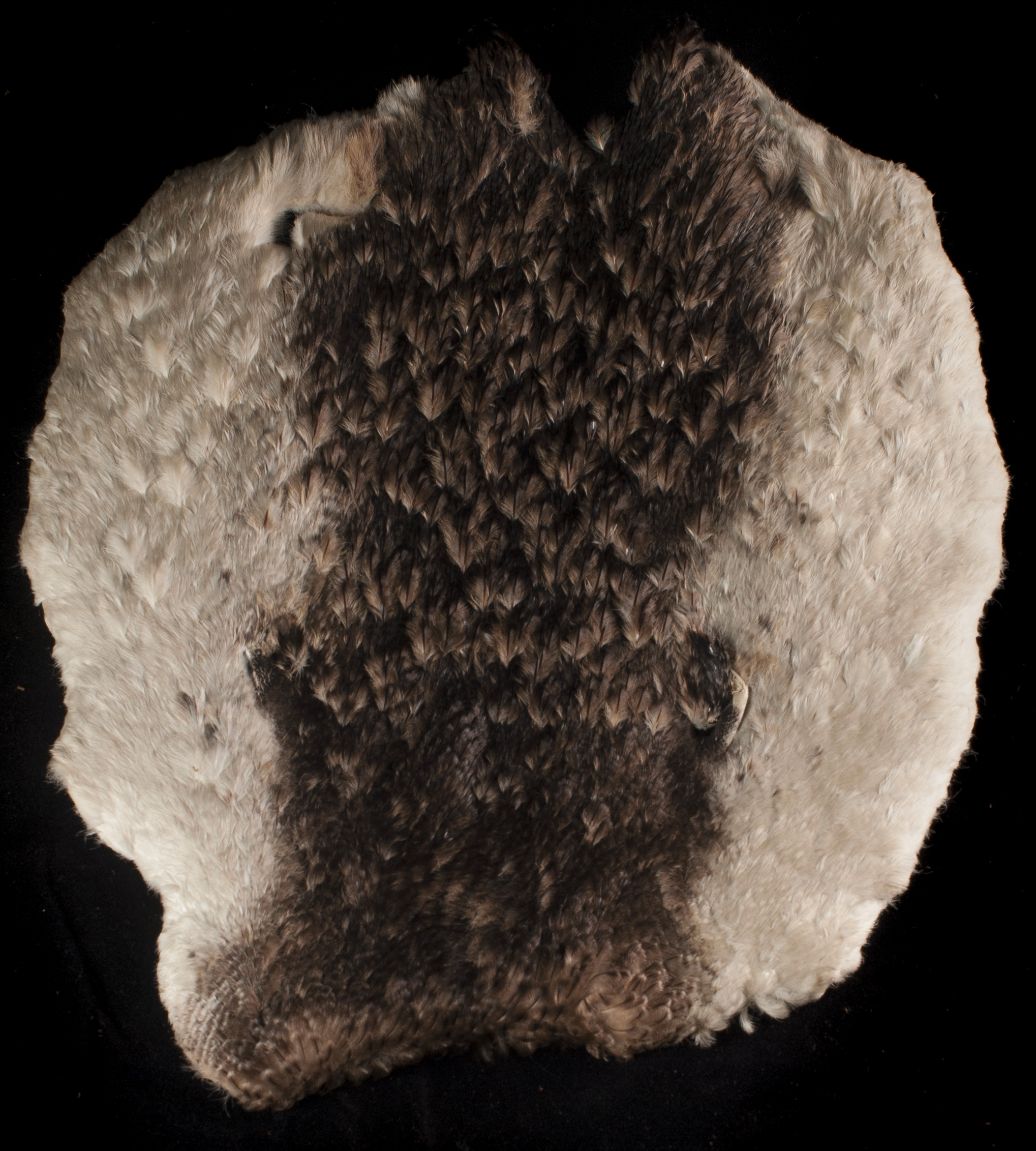 Penguin. Spheniscus magellanicus Taxidermy of a penguin skin on display at the Museum of Veterinary Anatomy FMVZ USP (cutted version). This file was published as the result of a partnership between the Museum of Veterinary Anatomy FMVZ USP, the RIDC NeuroMat and the Wikimedia Community User Group Brasil. This GLAM project is reported. Photography: Museum of Veterinary Anatomy FMVZ USP. Author: Wagner Souza e Silva.